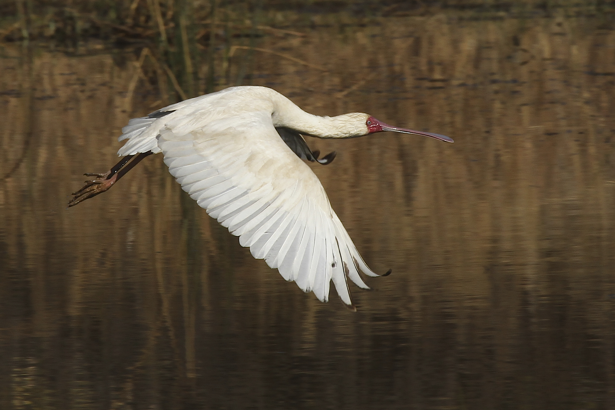 African Spoonbill at the Pilanesberg Game Reserve, South Africa